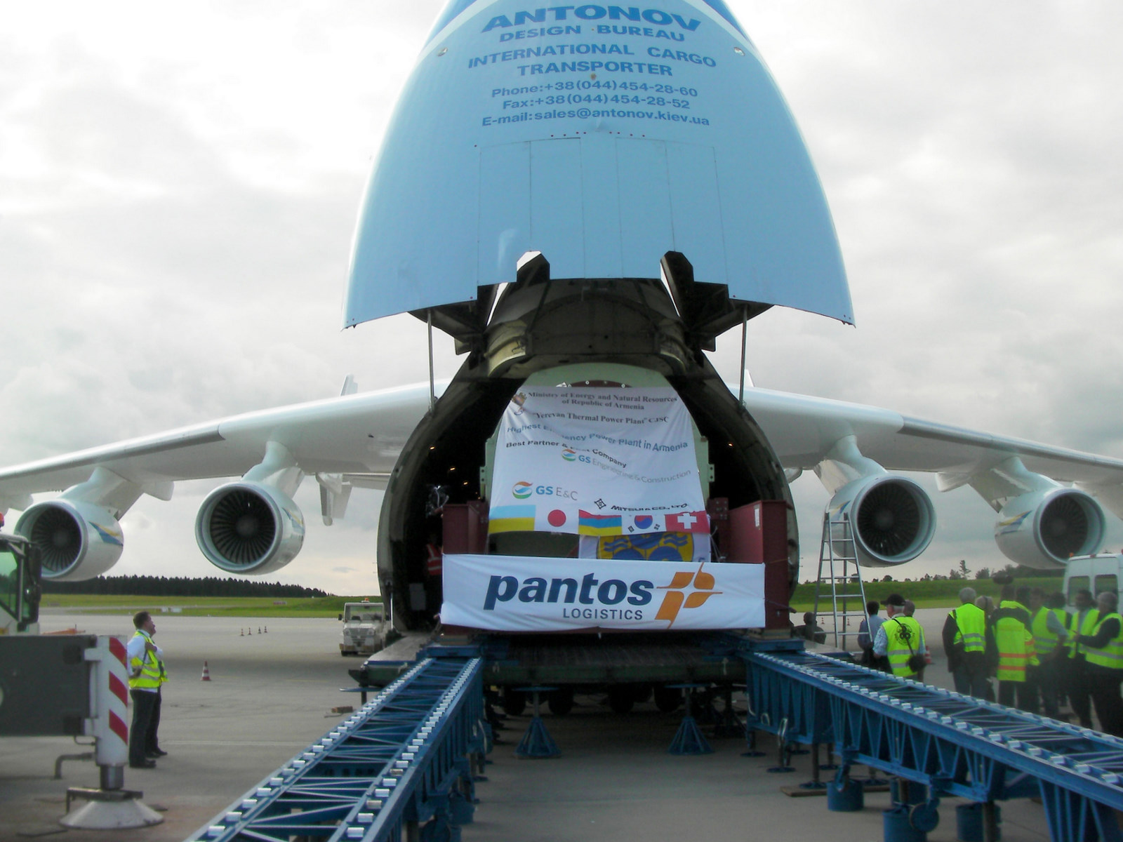 Pantos Logistics - Project Cargo